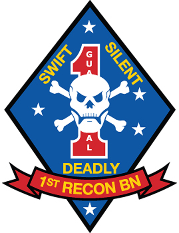 Insignia of Marine Corps 1st Reconnaissance Battalion; image from official Marine Corps site at